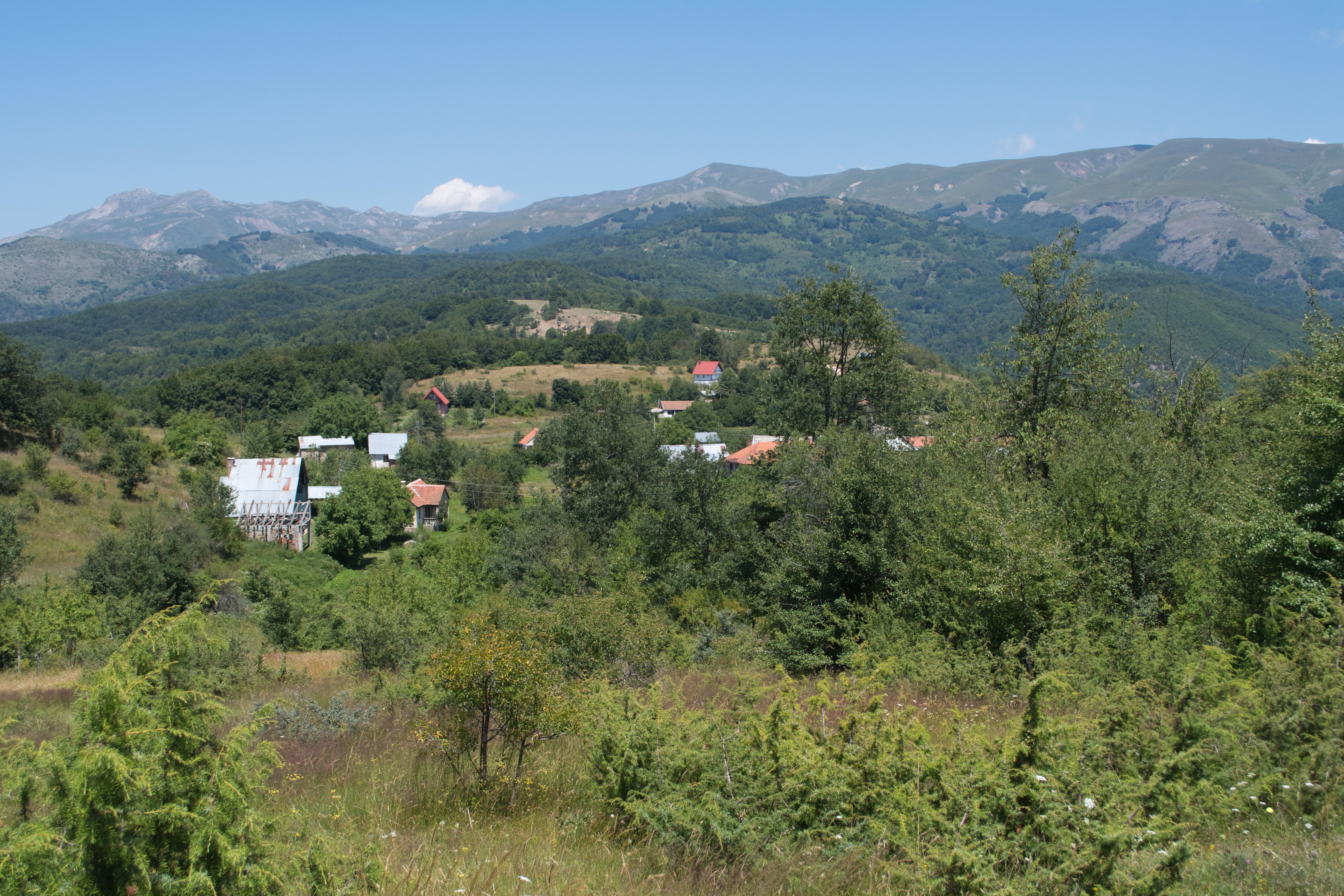 Panoramic view of the village of Lokov